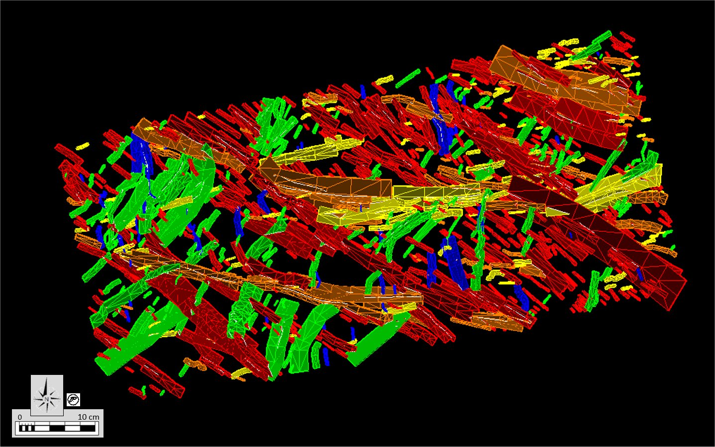 This computer model was generated using a digitised fault and fracture network visible on a quarzite tile. Different sets were recognised and classified in a semi-automatic way. A three-dimensional network was generated using the software pcake part of the DMX Protocol. This procedure uses a combination of deterministic (the fracture traces visible on the pavement) and probablistic (orientation variation, height, and truncations) variations to generate the three dimensional network (a TIN). Background information can be found in